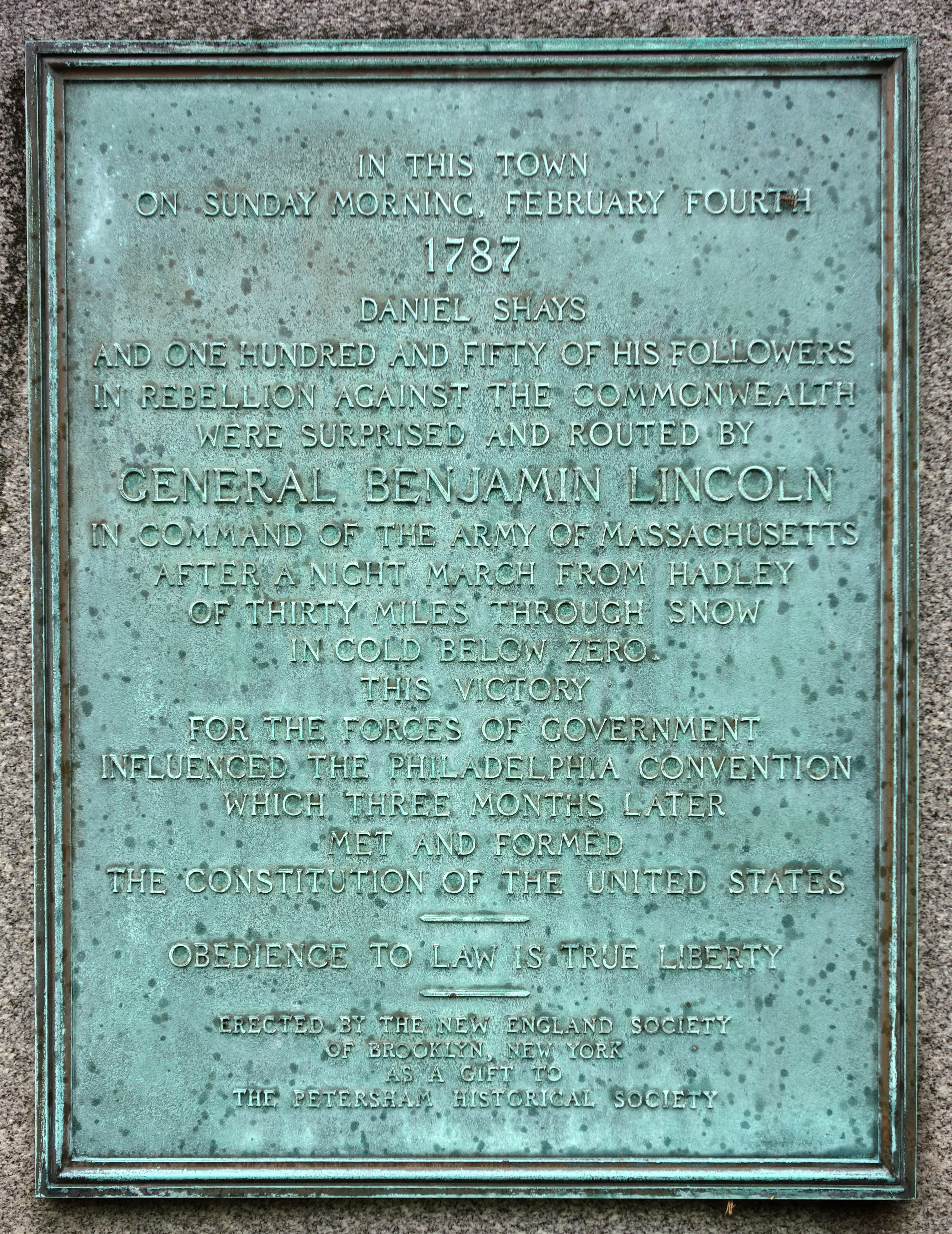 Daniel Shays' Rebellion marker, Petersham, Massachusetts, USA. See: "A Sign Taken for History: Daniel Shays' Memorial in Petersham, Massachusetts", Richard Peet, Annals of the Association of American Geographers, Vol. 86, No. 1 (Mar., 1996), pp. 21-43.